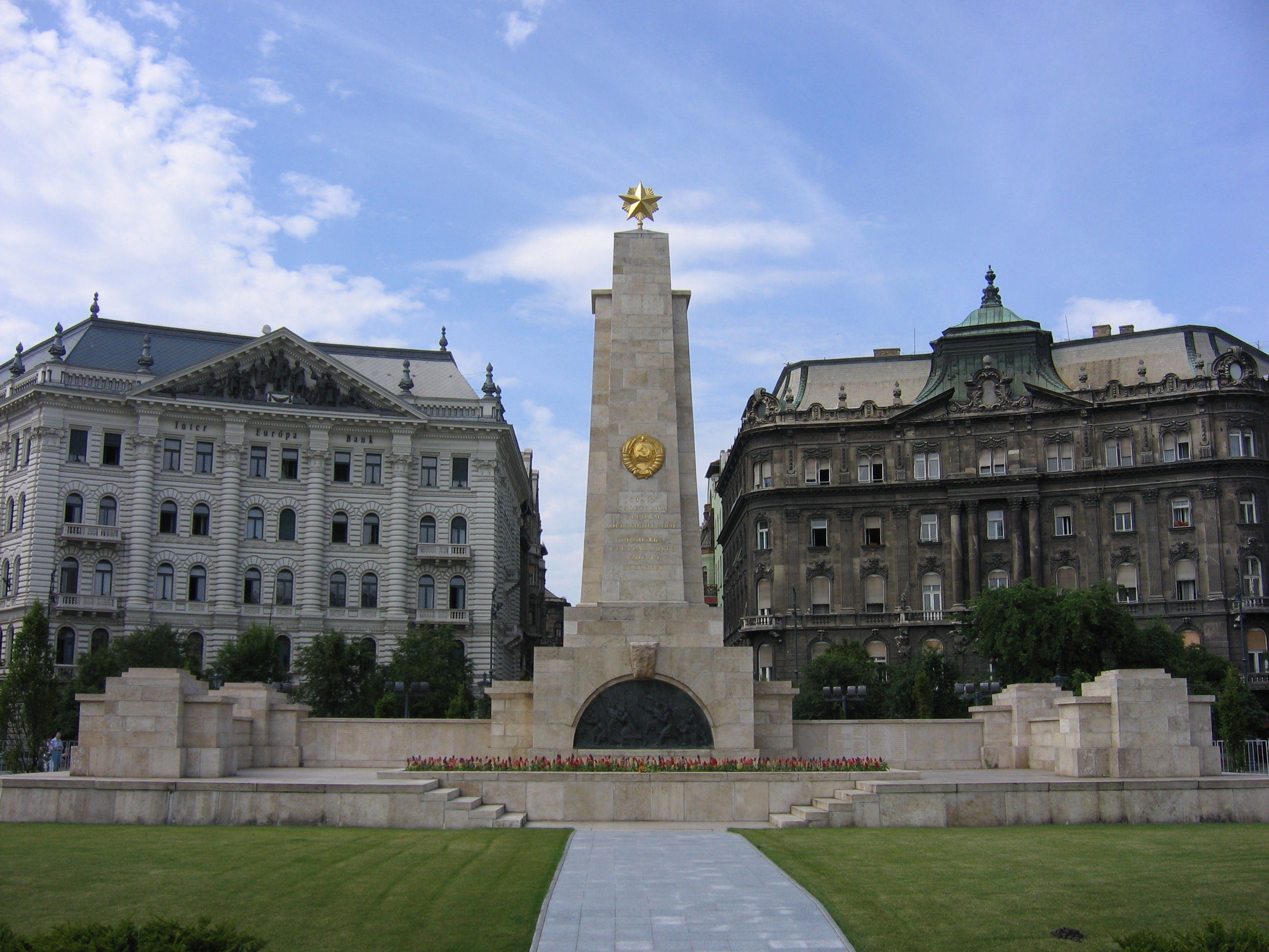 Scenes of Budapest (see filename)